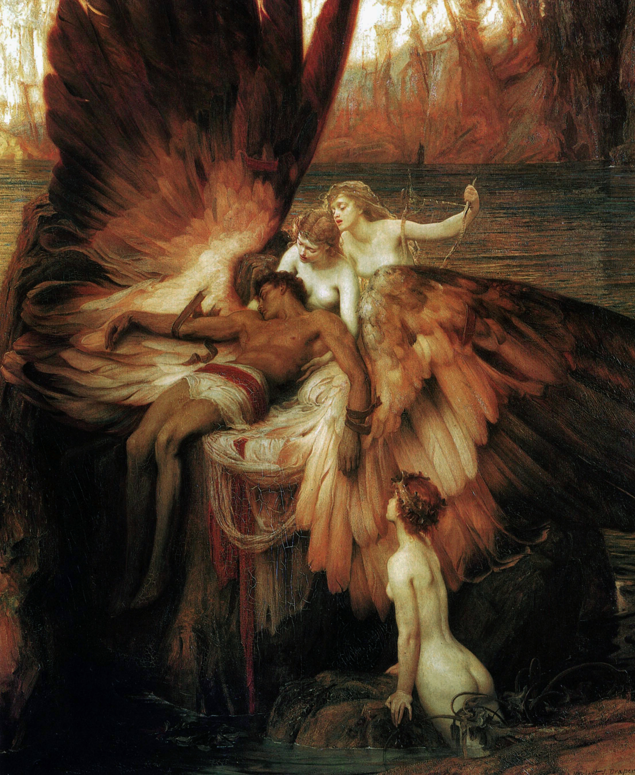 Lament for Icarus